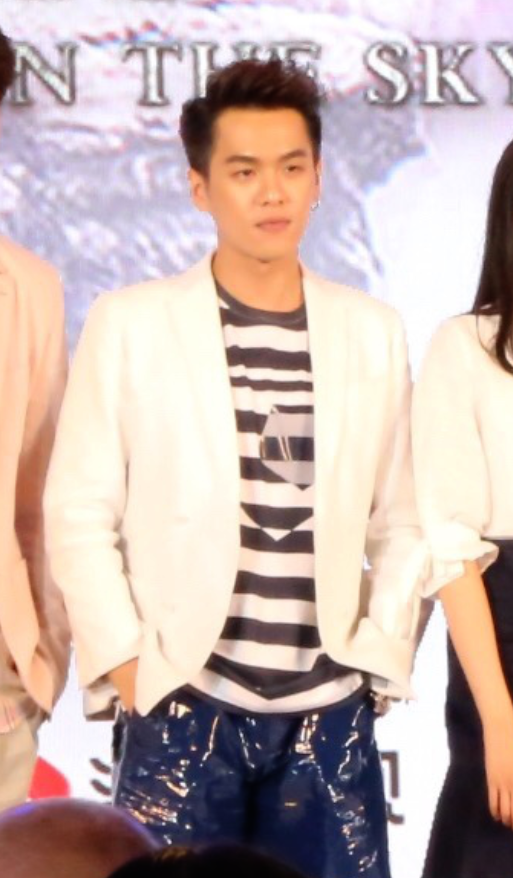 Zhang Ruoyun in 2016 at the Novoland Castle in the Sky press conference